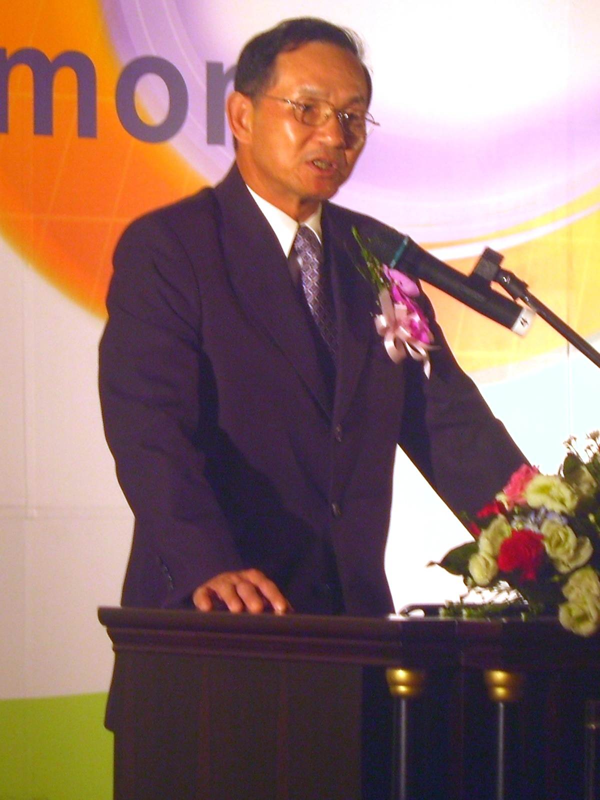 Fadah Hsieh, Deputy Minister of Economic Affaris, Taiwan, R.O.C.